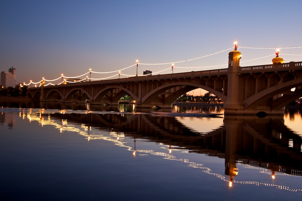 Mill Ave. Bridge, Tempe. Caught this crew boat during a long exposure by accident. ote old flour mill in BG.